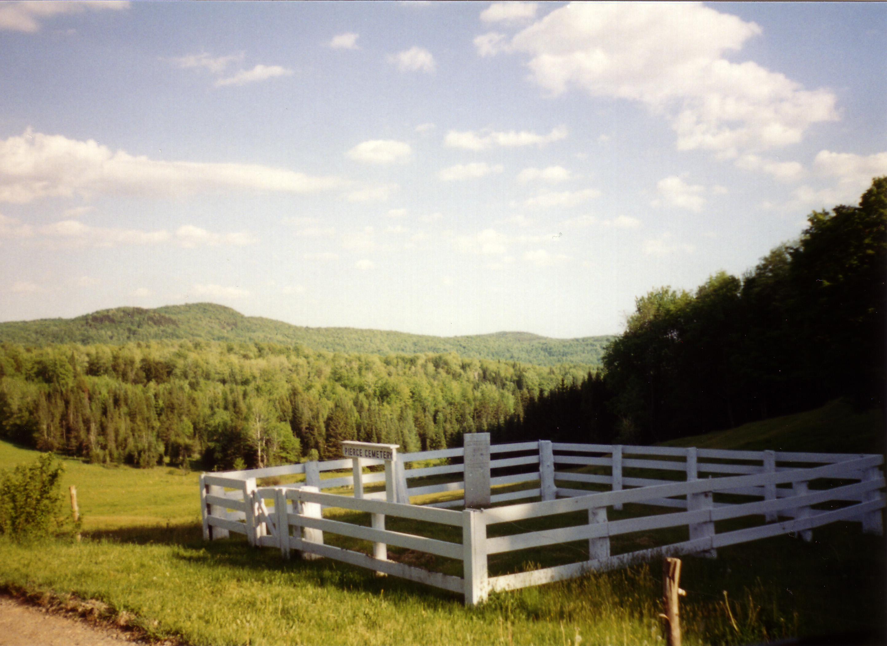 Pierce Cemetery in Wolcott, Vermont